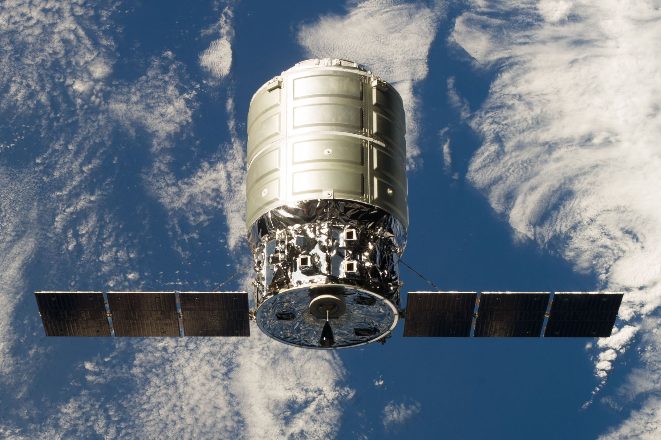 ISS037-E-003750 (29 Sept. 2013) --- The first Cygnus commercial cargo spacecraft built by Orbital Sciences Corp. is photographed by an Expedition 37 crew member on the International Space Station during rendezvous and docking operations. The two spacecraft converged at 7:01 a.m. EDT on Sept. 29, 2013.